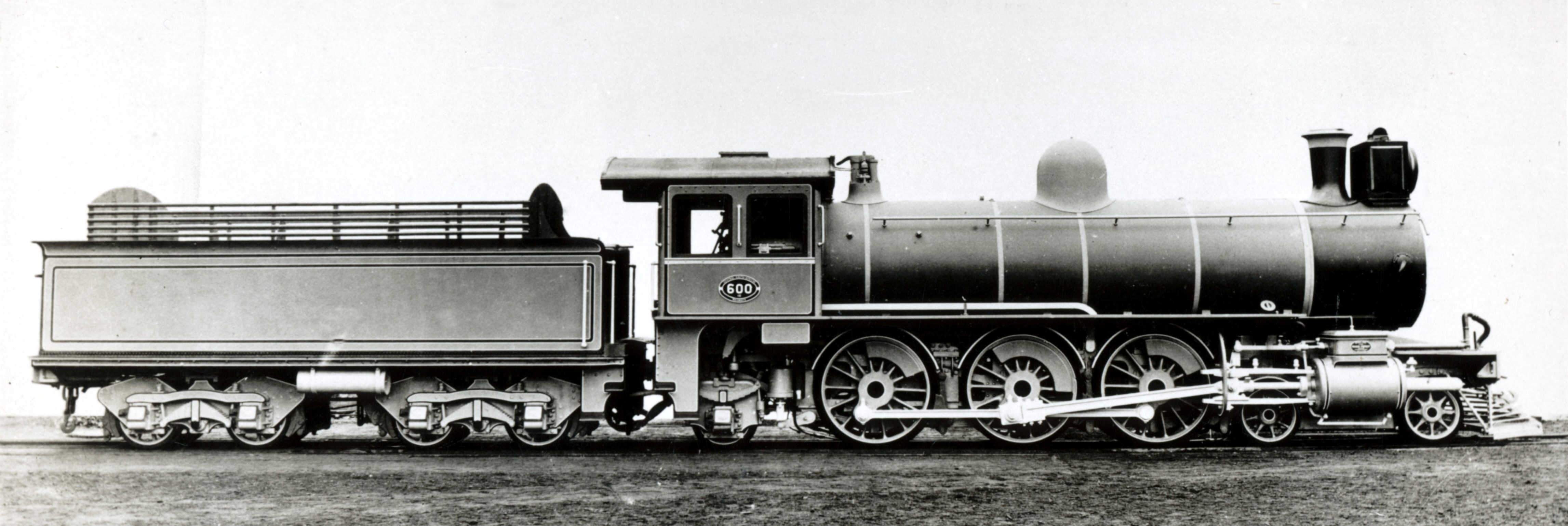 SAR Class 9 (ex CSAR No. 600), Vulcan Foundry builders photo